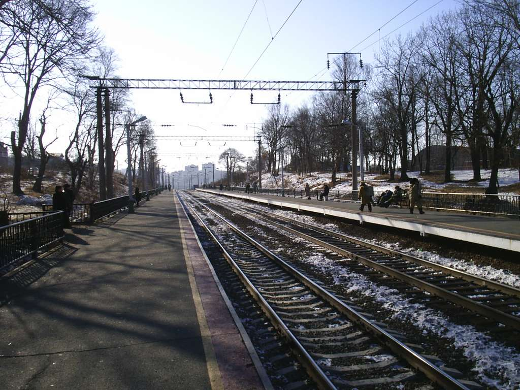 Chaika Railway Station